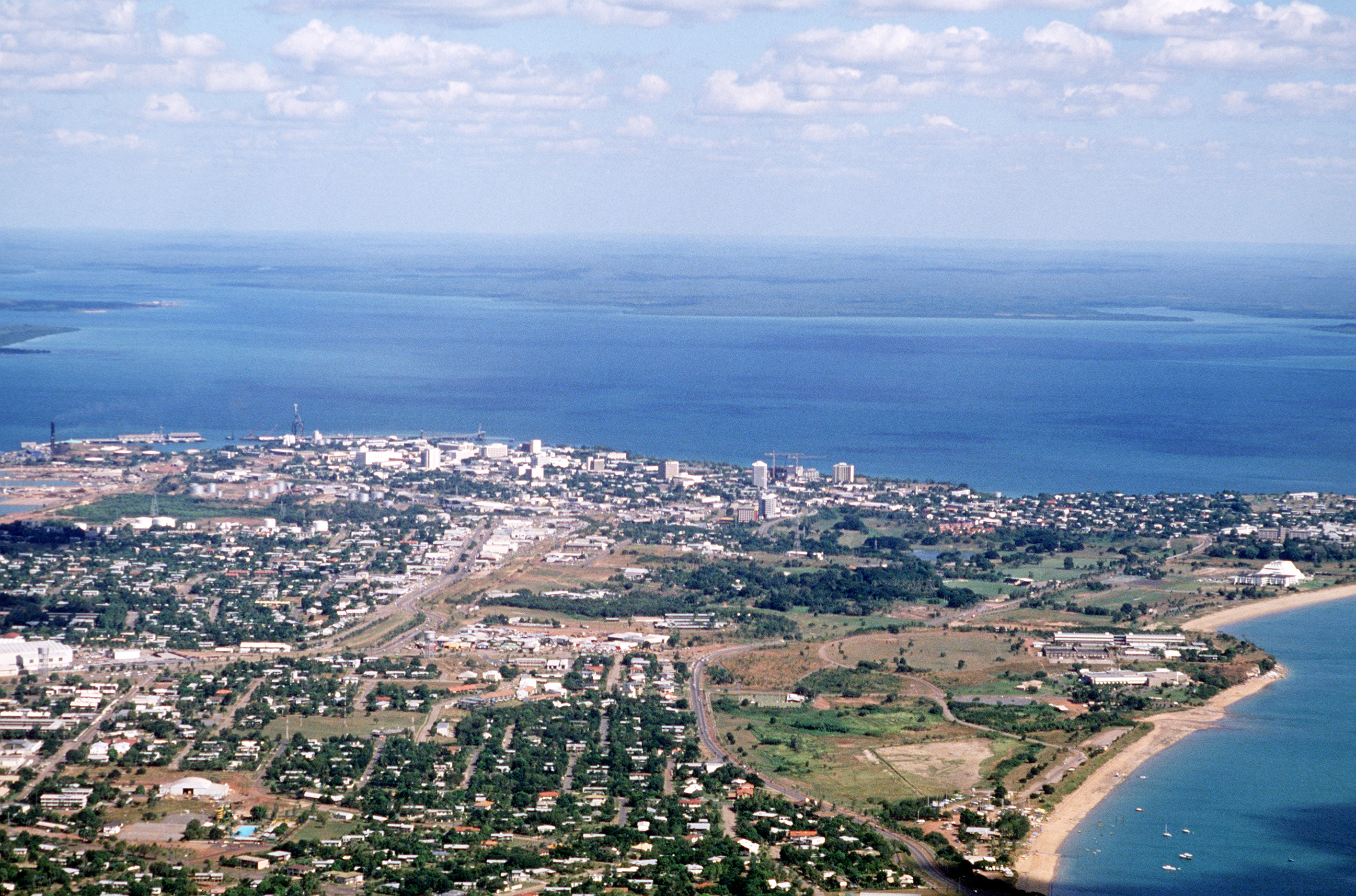 Aerial view of Darwin, Northern Territory (Australia) on 22 April 1984. The photo was taken during the joint Austrailan/New Zealand/US military exercise "Pitch Black 84".